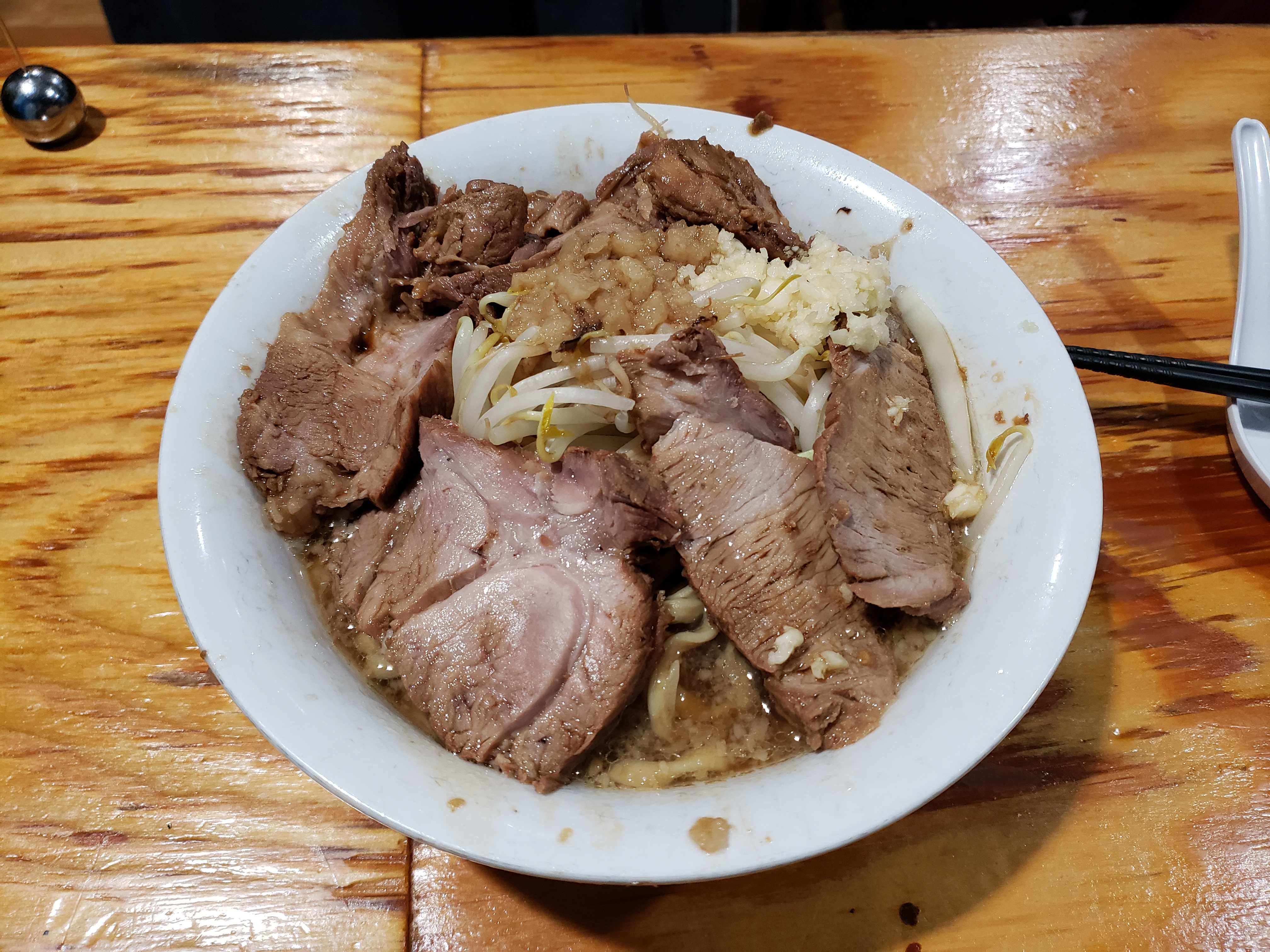 A bowl of ramen from Yume Wo Katare, a ramen bar in Cambridge, Massachusetts.